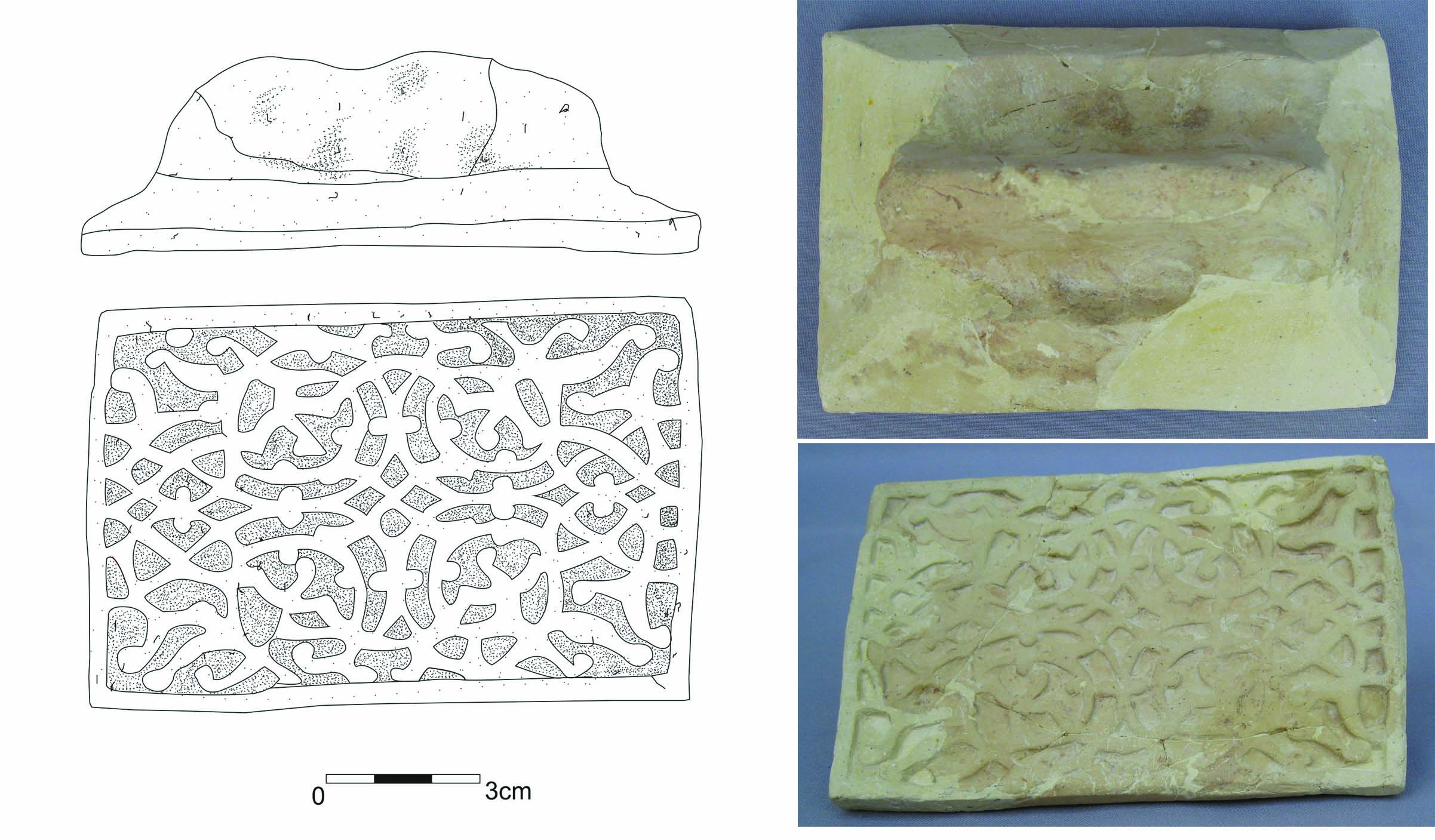 Remnants of a clay sack on the fabric of the sixth to seventh century AH. The artifact from the exploration of the historic city of Belqis, Esfarayn County, North Khorasan, Iran تۆرکجه: Altıncıdan yedinci yüzyıla kadar uzanan bir çuvalın kalıntıları H. Belqis Esfarayn-Kuzey Horasan-İran tarihi kentinin keşfinden